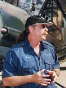 Fantasy of Flight founder Kermit Weeks Photo by Alan C. Teeple User:ACT1 see more: ACTWON Un-Official Fantasy of Flight site